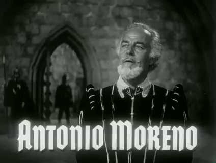 Antonio Moreno Captain from Castile Henry King 1947